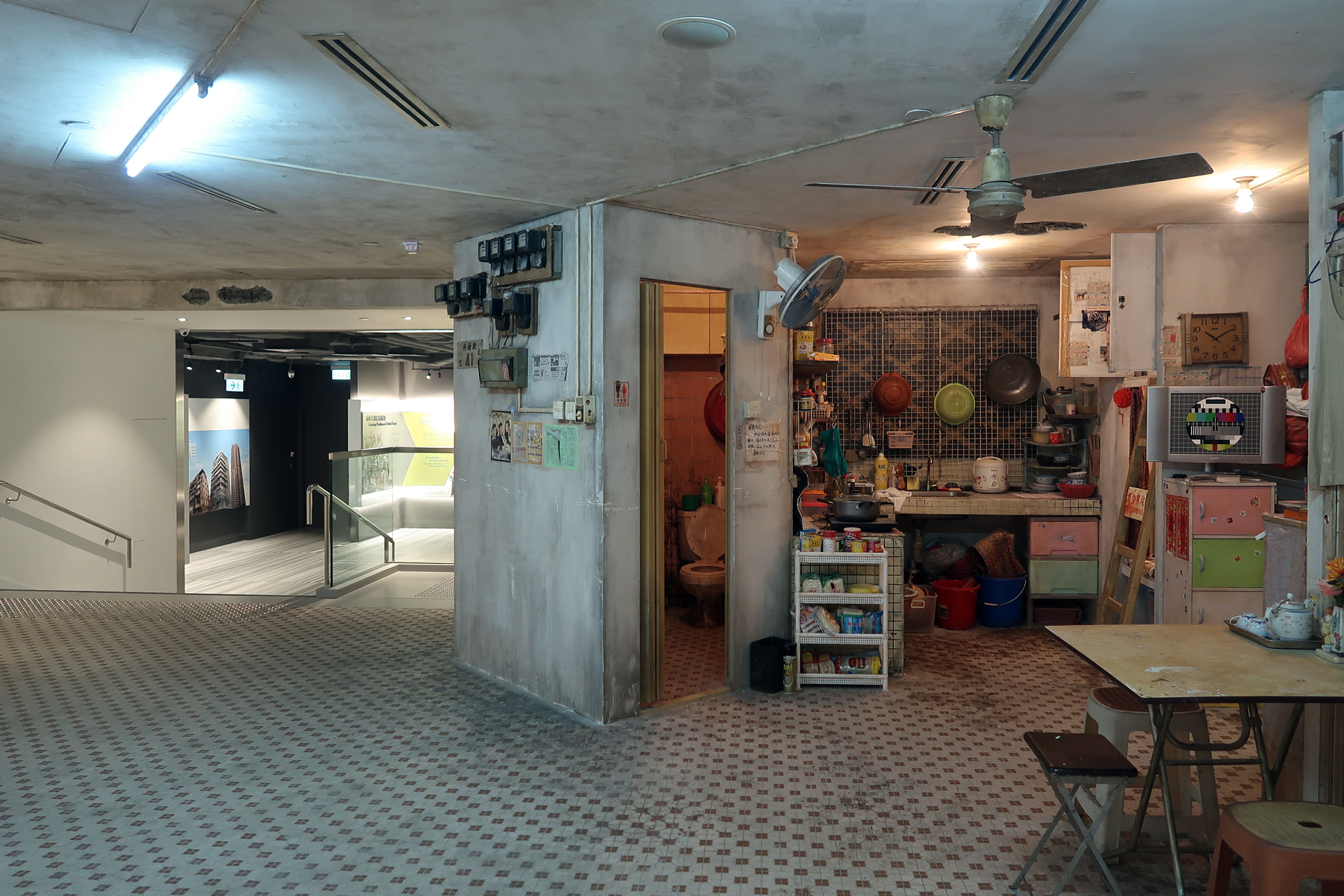 Urban Renewal Exploration Centre